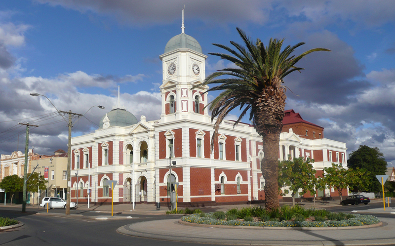 The Boulder Town Hall in Kalgoorlie-Boulder, Western Australia, is a beautifully preserved historic town hall, with pressed metal ceilings, wrought iron balustrades, and the priceless Philip Goatcher stage curtain. Built in 1908, it became famous as a host venue for celebrity performers such as Dame Nellie Melba, Nance O'Neil, Eileen Joyce and AC/DC. The hall is currently closed for repairs due to damage sustained during an earthquake.